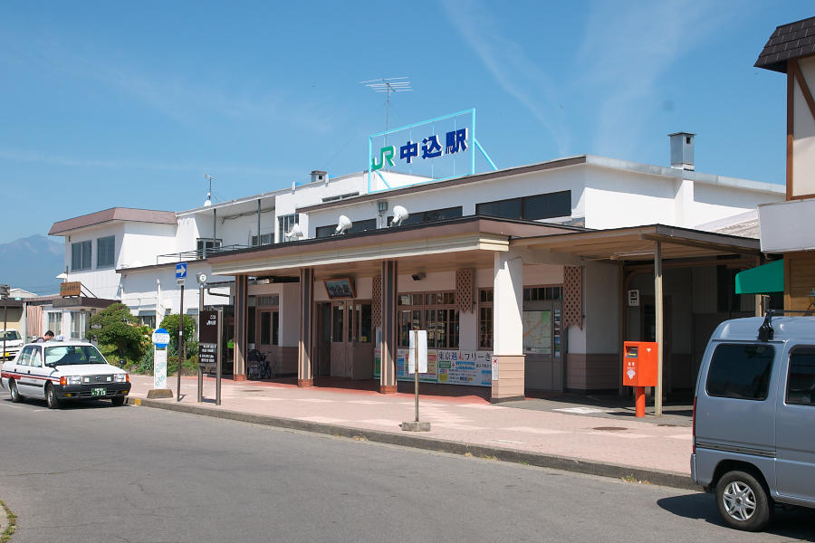 JR East Koumi Line Nakagomi Station